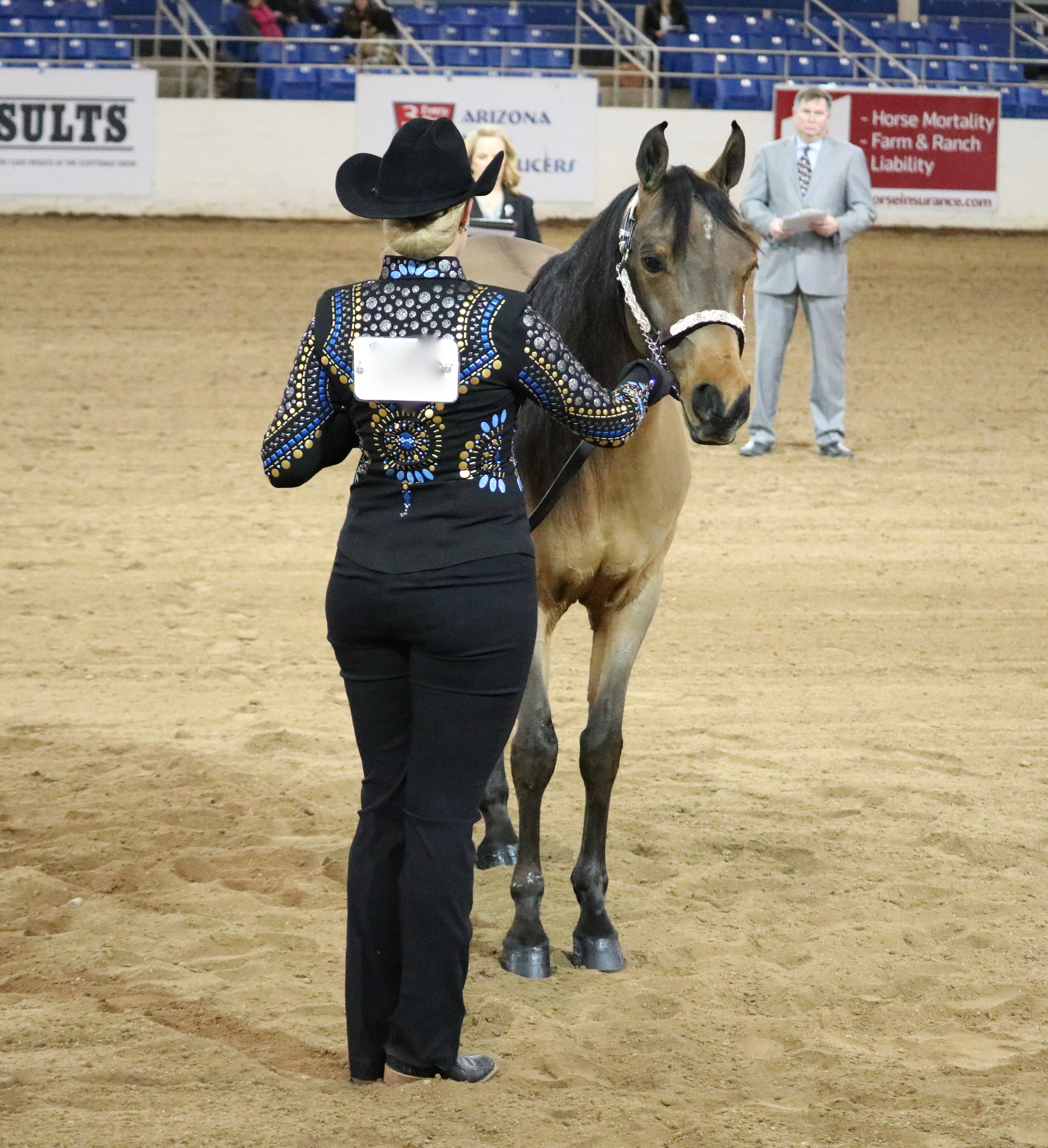 Adult Showmanship class at Scottsdale Arabian Show, 2017